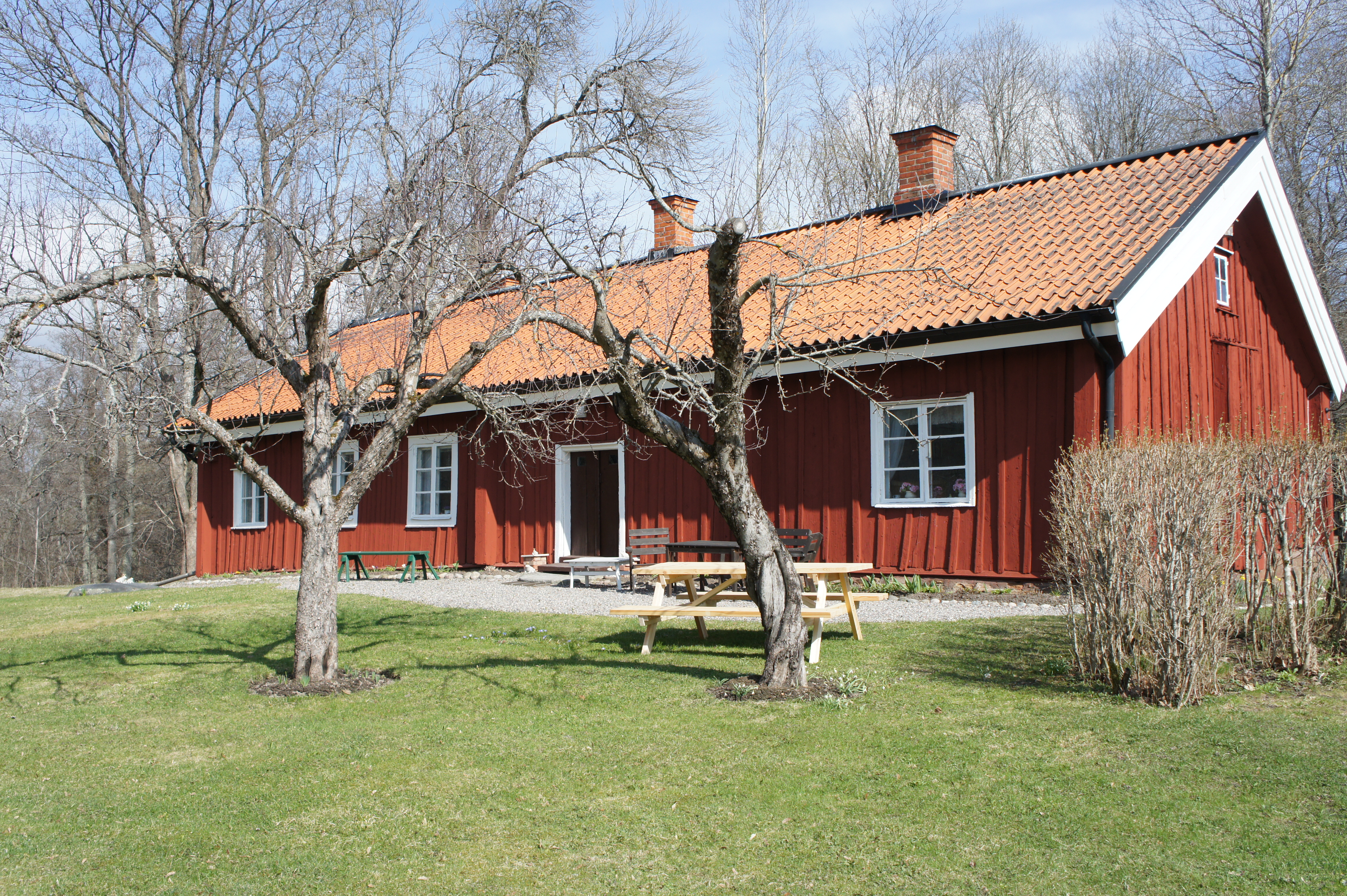 The oldest house in Örebro still at its original site, "Långkatekesen" or "Kronobyggningen" at Snavlunda